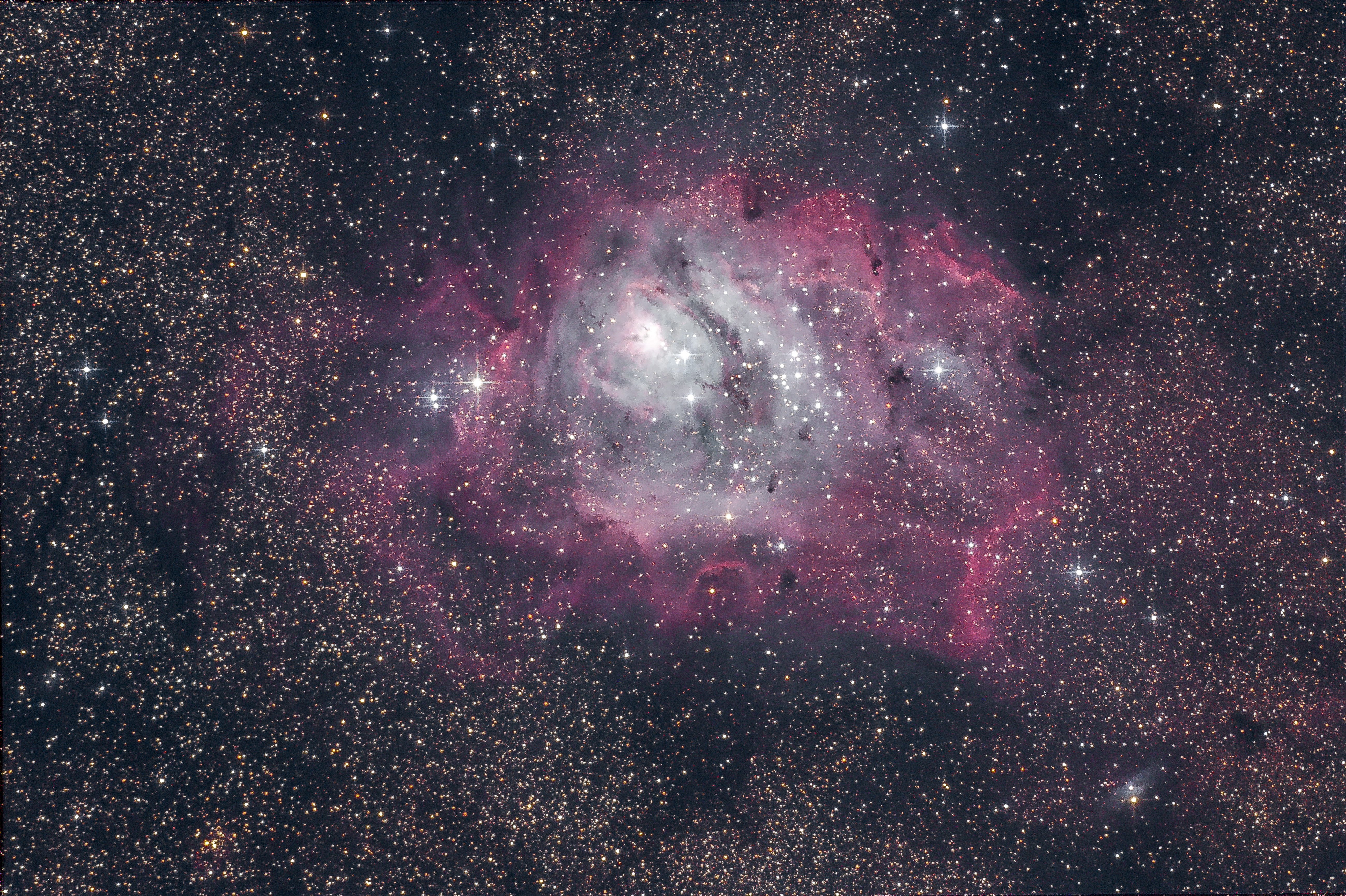 Messier 8 (Lagoon-Nebula), Namibia 2012 with a Canon 60D on a 8"-Newton, 1000mm